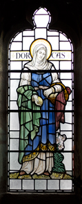 This is a photograph of a stained glass window in St. Michael's Parish Church, Mytholmroyd, West Yorkshire U.K. depicting Dorcas.